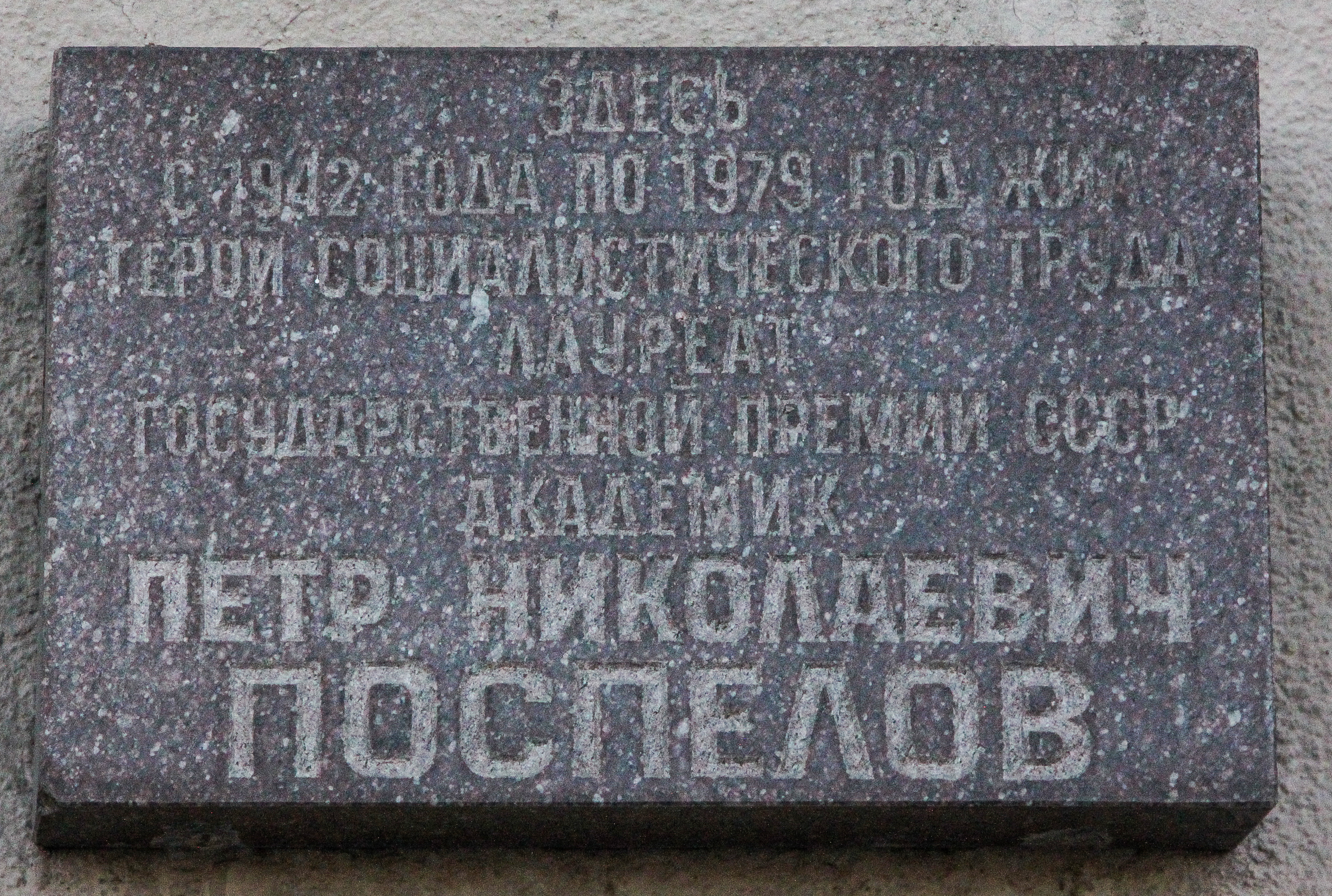 Here from 1942 to 1979 lived a Hero of Socialist Labour, a Laureate of USSR State Prize, an academician Pyotr Nikolayevich Pospelov.